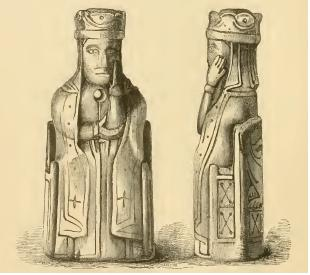 Illustration of the Clonard chess Piece, a 12th century ivory artefact found in Ireland before 1817, from the 'Book of Rights '(John O'Donovan, Dublin, 1847), p.lxi-lxi, 35